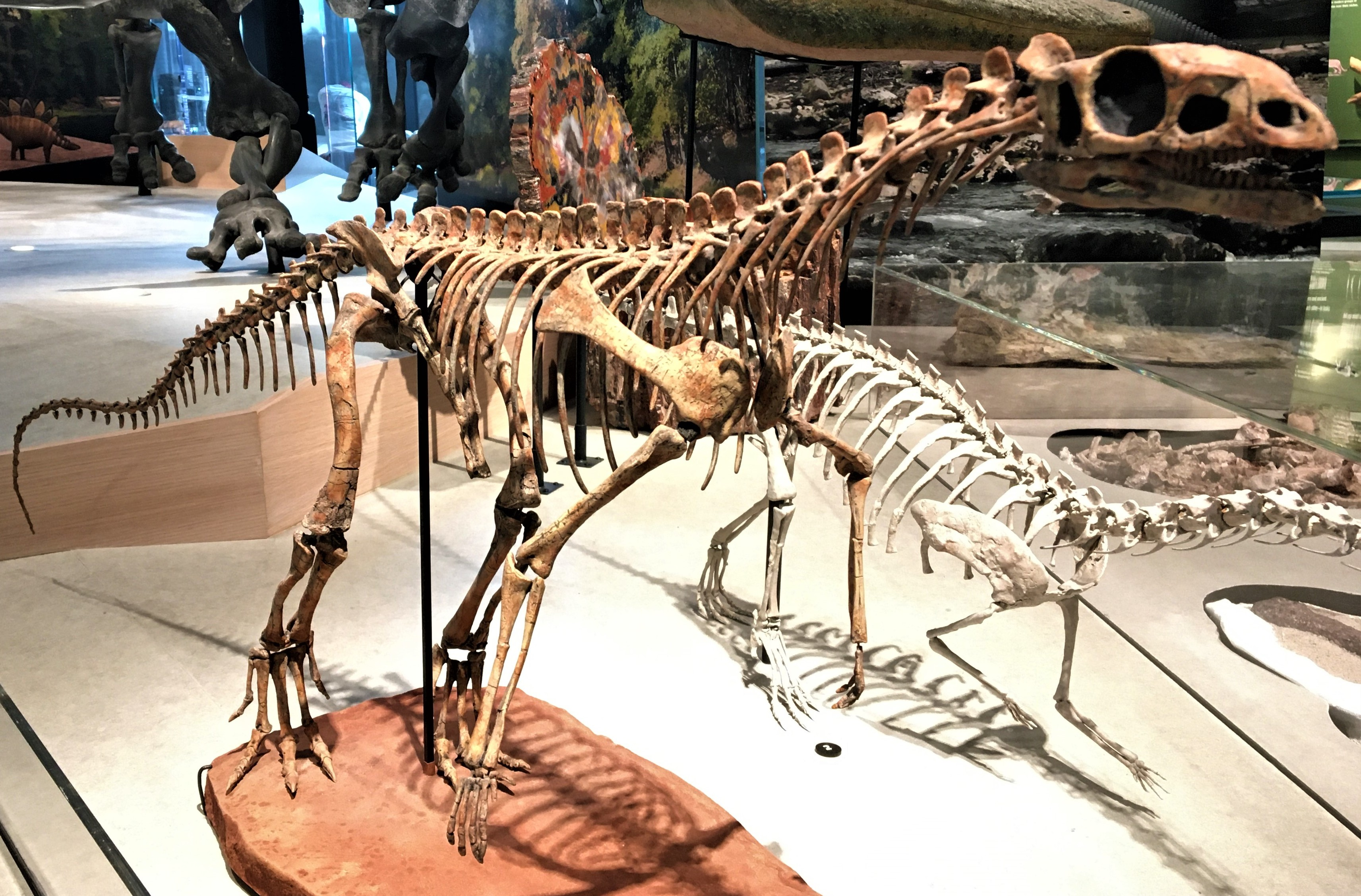 Skeletal Reconstruction of Asilisaurus kongwe on display at the burke museum in bipedal stance